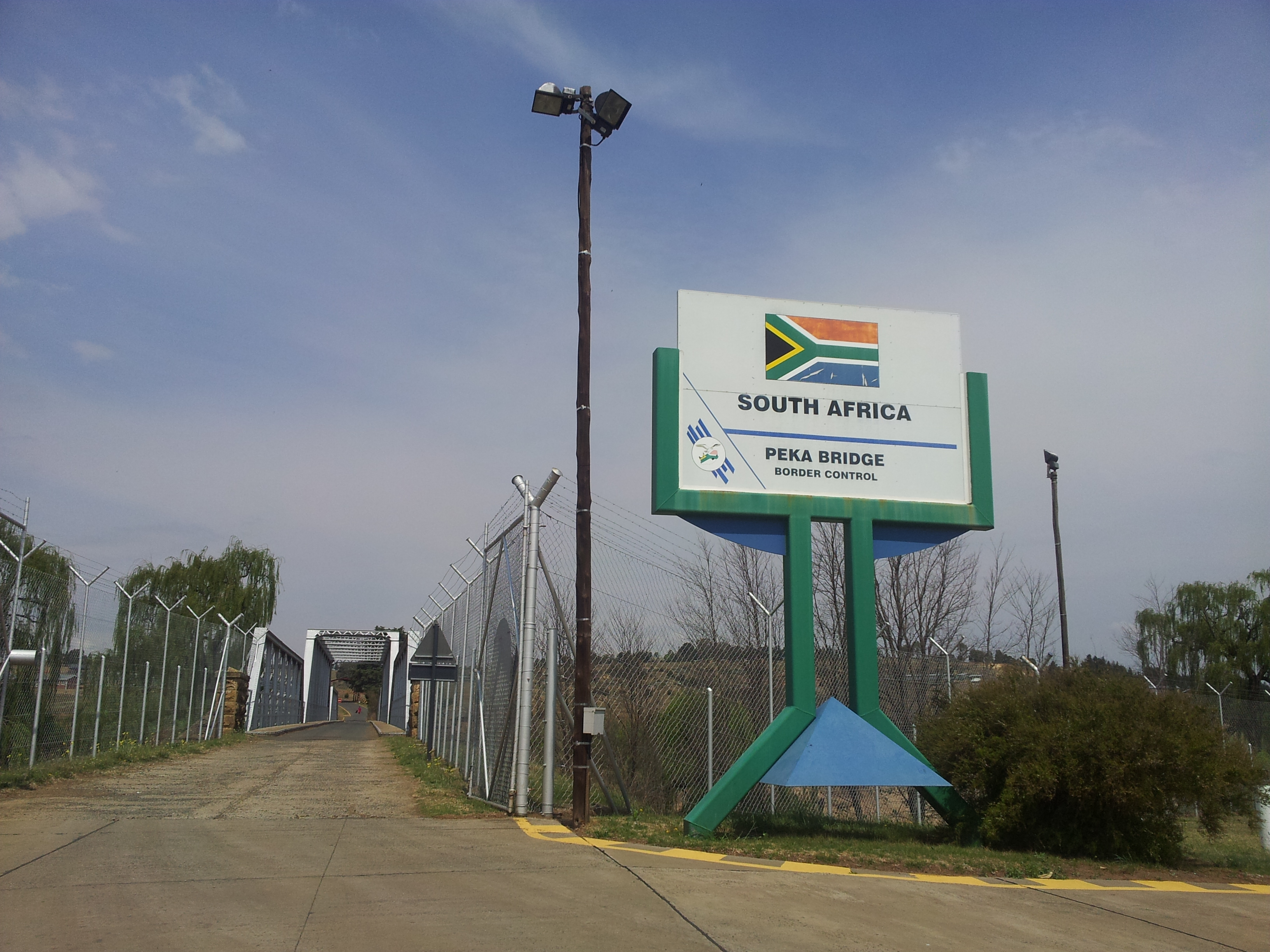 Peka Bridge Border Post between South Africa and Lesotho; here the South African side. Nearest town: Ficksburg, RSA.